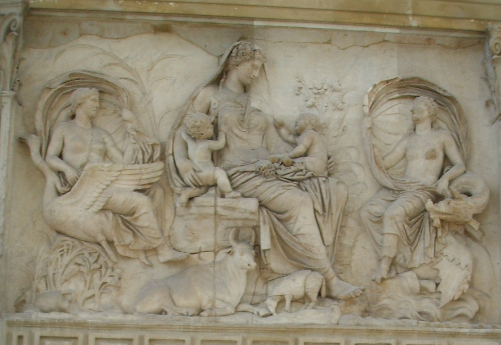 Ara Pacis, north side Saturnia Tellus